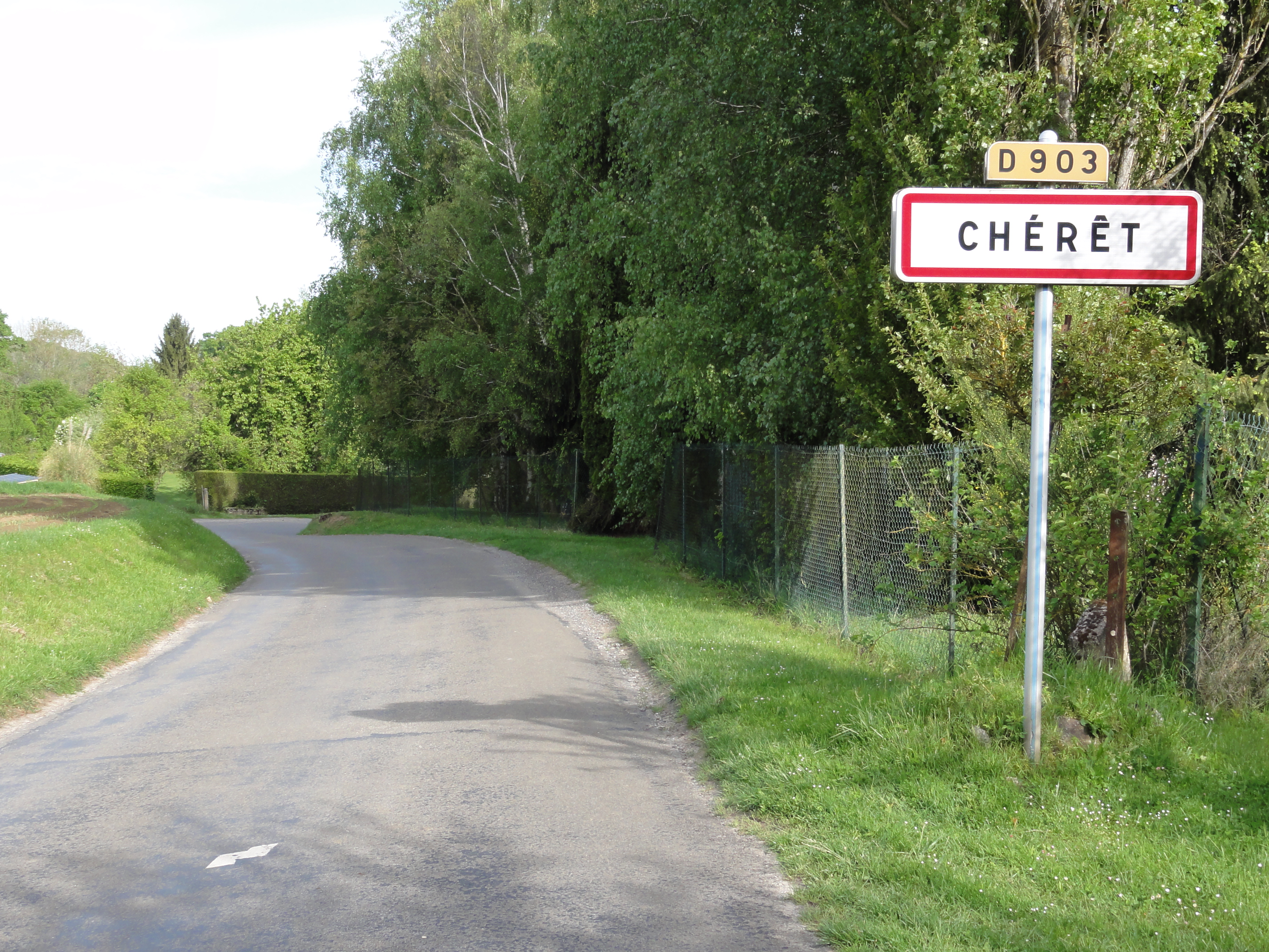 Chérêt (Aisne) city limit sign